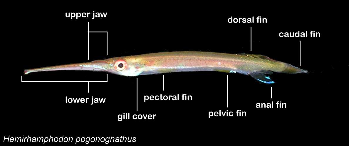 A subadult specimen of Hemirhamphodon pogonognathus with key morphological features labelled. Specimen in my aquarium, labelling done by me. Neale Monks 22:51, 9 February 2007 (UTC)